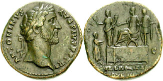 ANTONINUS PIUS. 138-161 AD. Æ Sestertius (23.52 gm). Struck 145 AD. Laureate head right COS IIII, LIBERALITAS/AVG III[I] in exergue, Antoninus seated left in curule chair on raised daïs, extending hand to figure standing right and extending hand to receive it; statue of Liberalitas standing left, holding abacus and cornucopiae, on daïs before; officer holding sceptre standing behind. RIC III 774; BMCRE 1690A; Cohen 498.